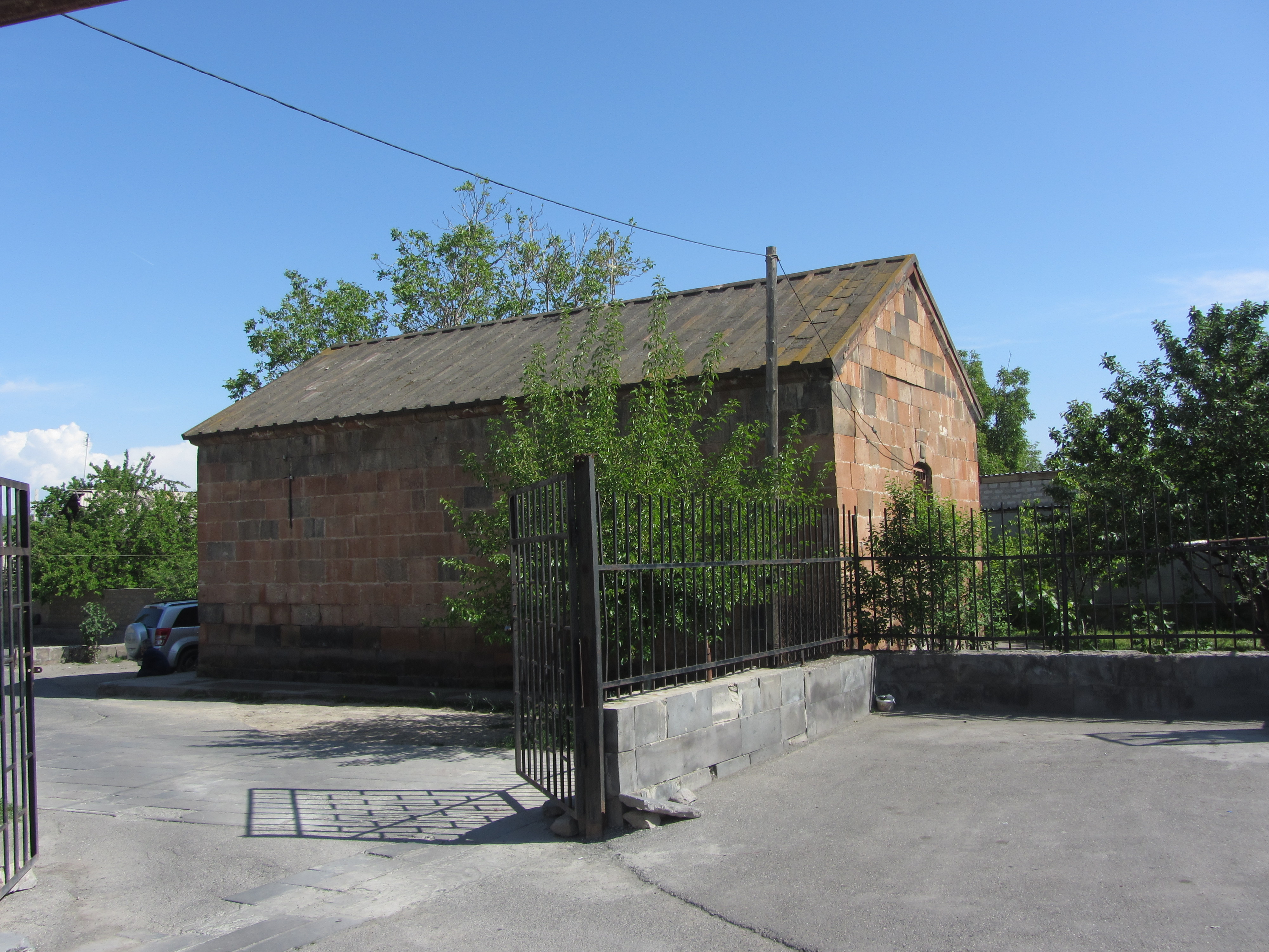 Surb Kiraki Church, Noragavit, 19c.